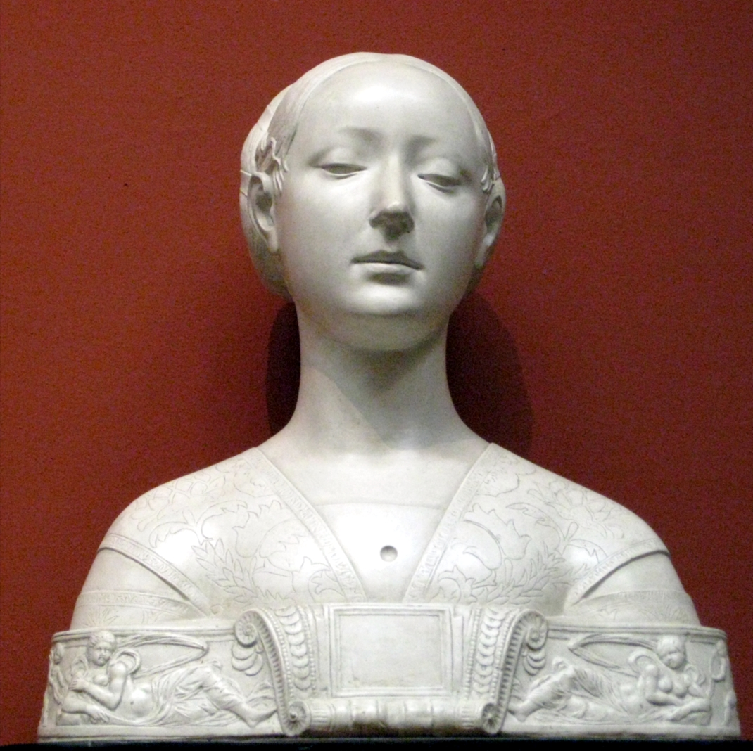 Woman by Francesco Laurana (ca. 1472). Cast from original in Berliner museum. Plaster cast, portrait bust of a woman after marble original by Francesco Laurana. The sitter has been tentatively identified as Ippolita Maria Sforza, the wife of King Alfonso II of Naples, but this theory is not based on any secure evidence. This cast represents one of nine female portrait busts ascribed to Laurana on the basis of their resemblance to a series of documented figures of the Virgin and Child in Sicily. Two of these busts, in the Frick Collection, New York, and in the National Gallery of Art, Washington D.C., are closely related to the portrait in this cast as they appear to represent the same person, and have similar bases decorated with classicizing figures. The sitter has been tentatively identified as Ippolita Maria Sforza, the wife of King Alfonso II of Naples, but this theory is not based on any secure evidence. The lost portrait bust in Berlin had the remains of extensive pigmentation, and the faint incised decoration of the dress, was, on the original, a richly gilded pattern. The hole at the breast may once have been covered by a metal brooch or pendant and the cartouche might have originally contained the sitter's name. The original painted and gilded marble bust was formerly in Berlin, Germany, but was destroyed in 1945. This bust had been digitalized and the digital model is on open license. It is often used for 3d software demonstrations.